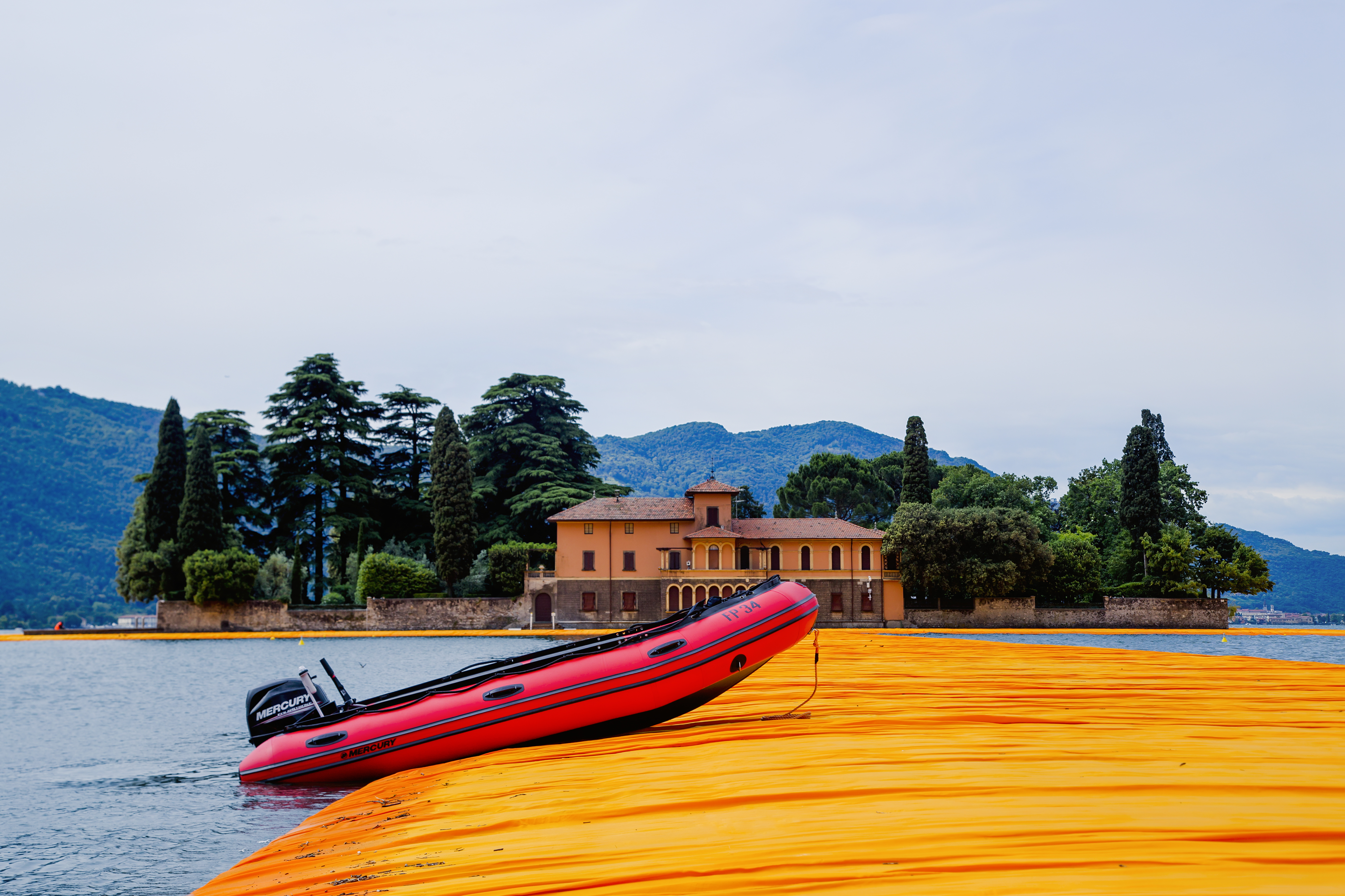 The Floating Piers is a site-specific work of art by Bulgarian artist Christo Yavacheff, consisting of 100,000 square meters of yellow fabric, carried by a modular floating dock system of 220,000 high-density polyethylene cubes in Italy. The fabric creates a walkable surface between Sulzano, Italy to Monte Isola and to the island of San Paolo.